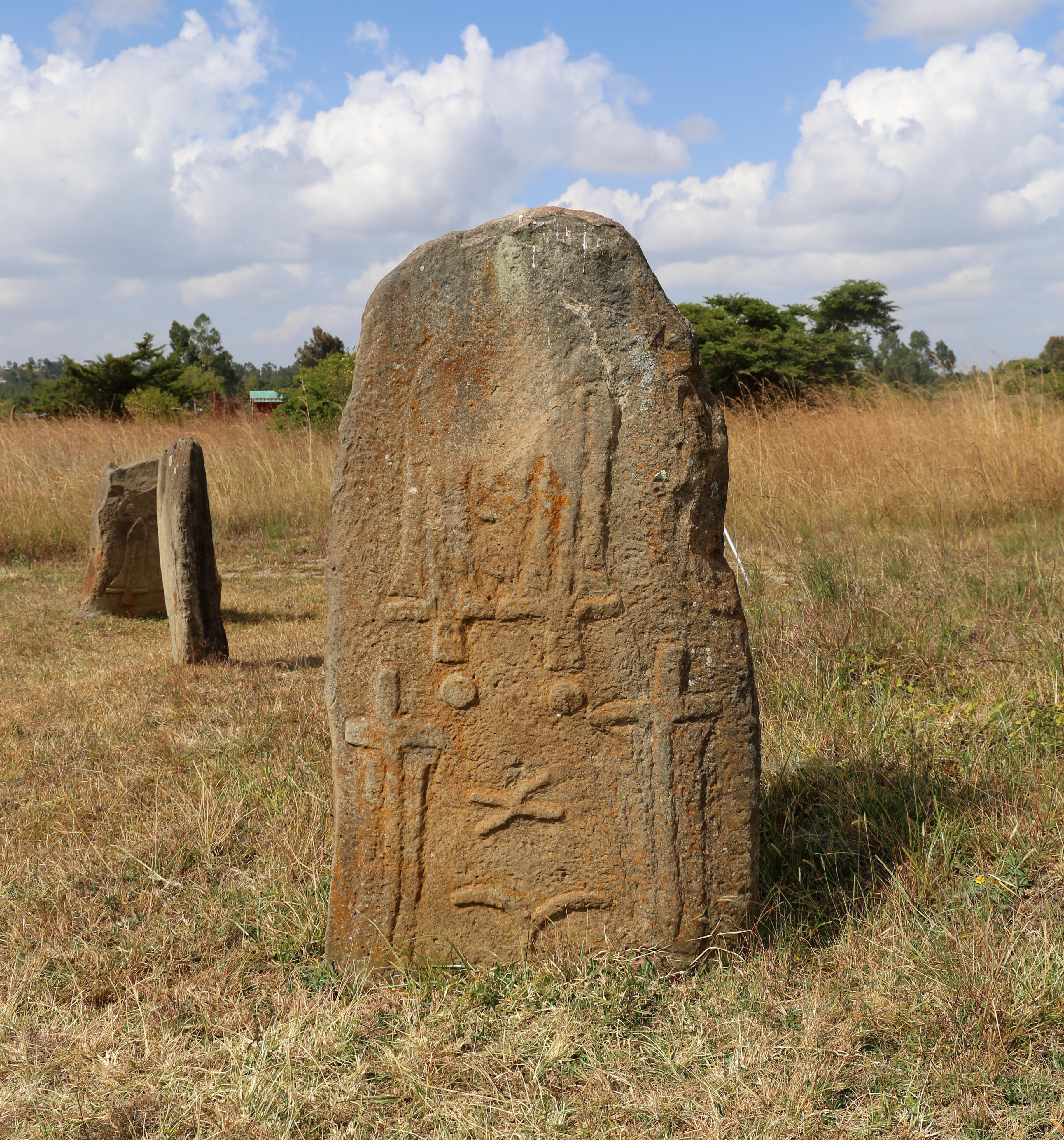 Tiya, Ethiopia